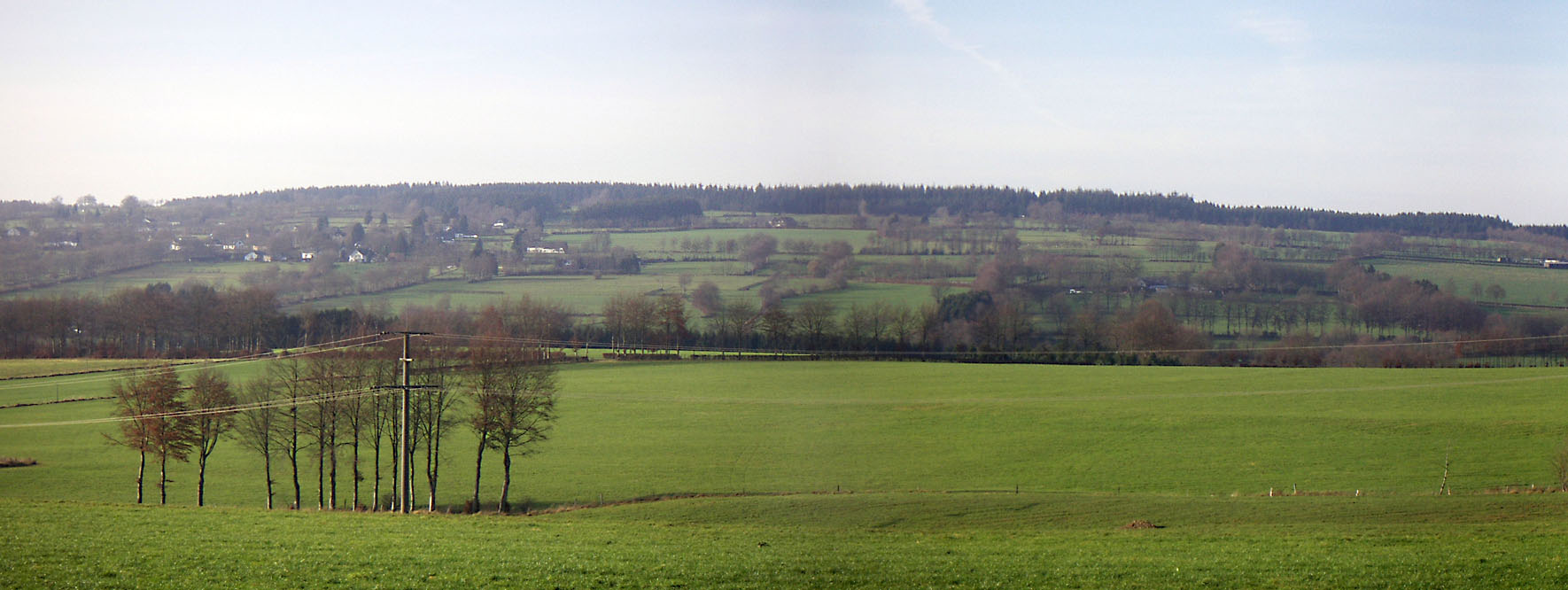 The Steling, a peak in the Eifel mountains of Germany